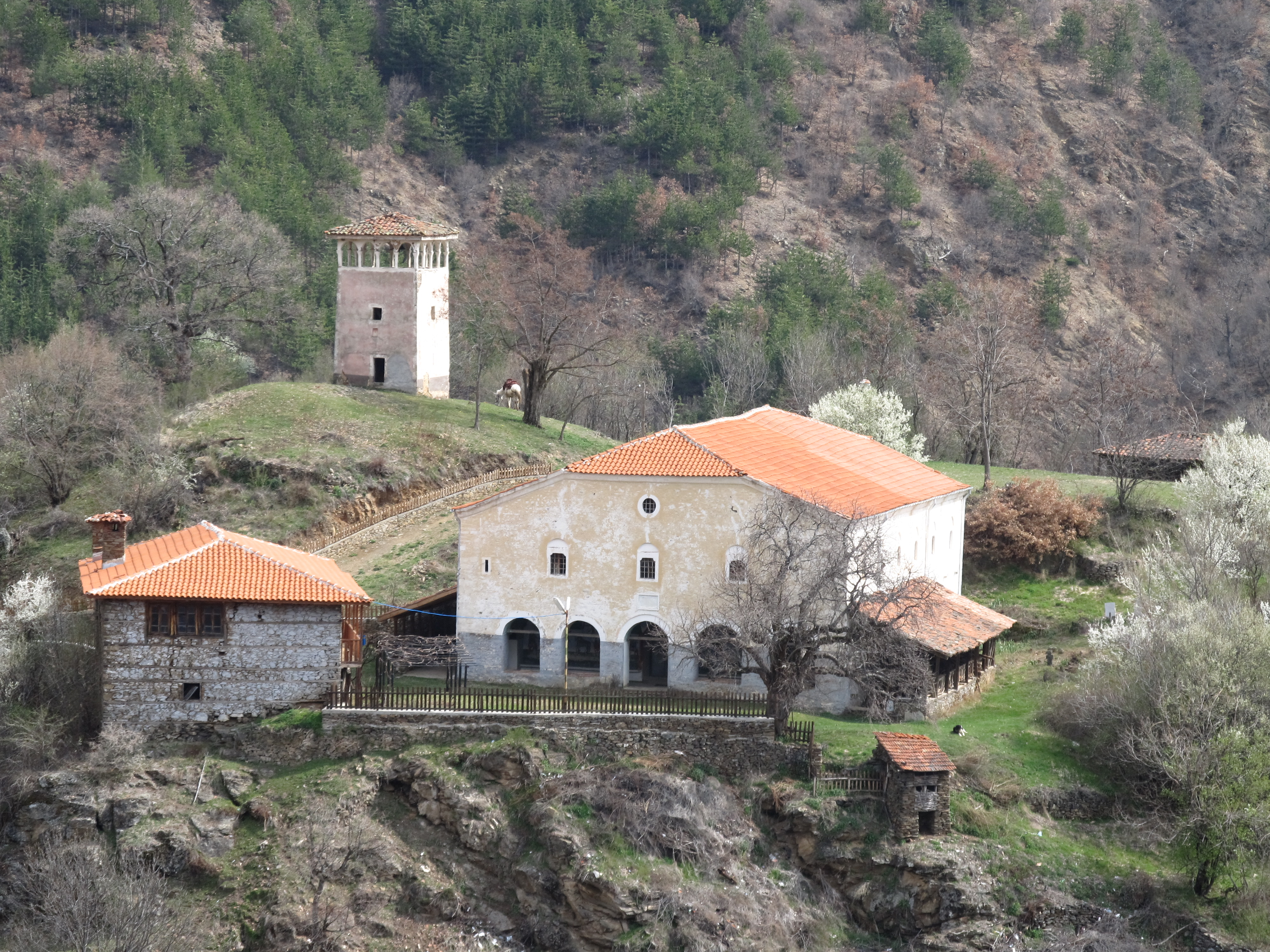 Chourilovo Monastery "St.George", Ograzhden, Bulgaria